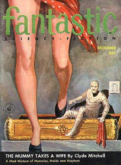 Cover of Fantastic, December 1956